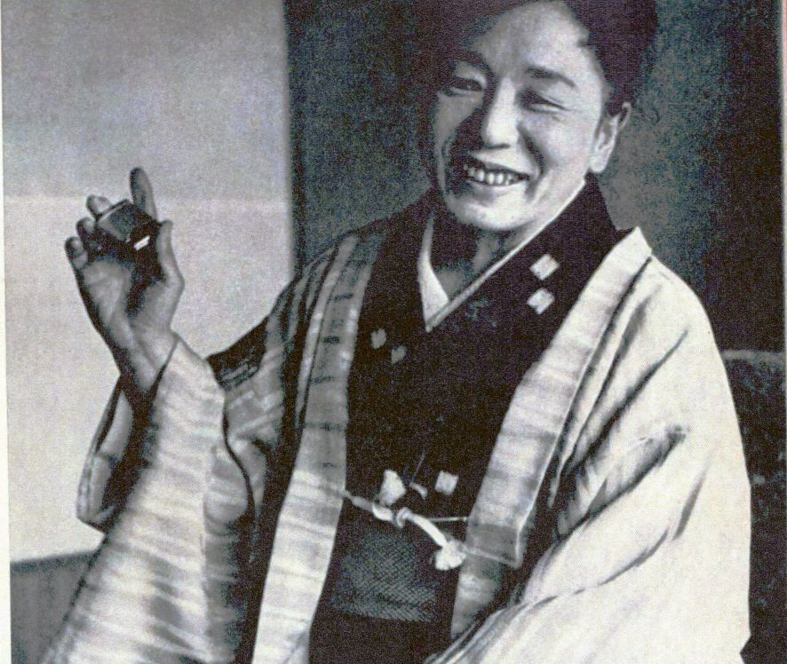 Yoko Mizuki